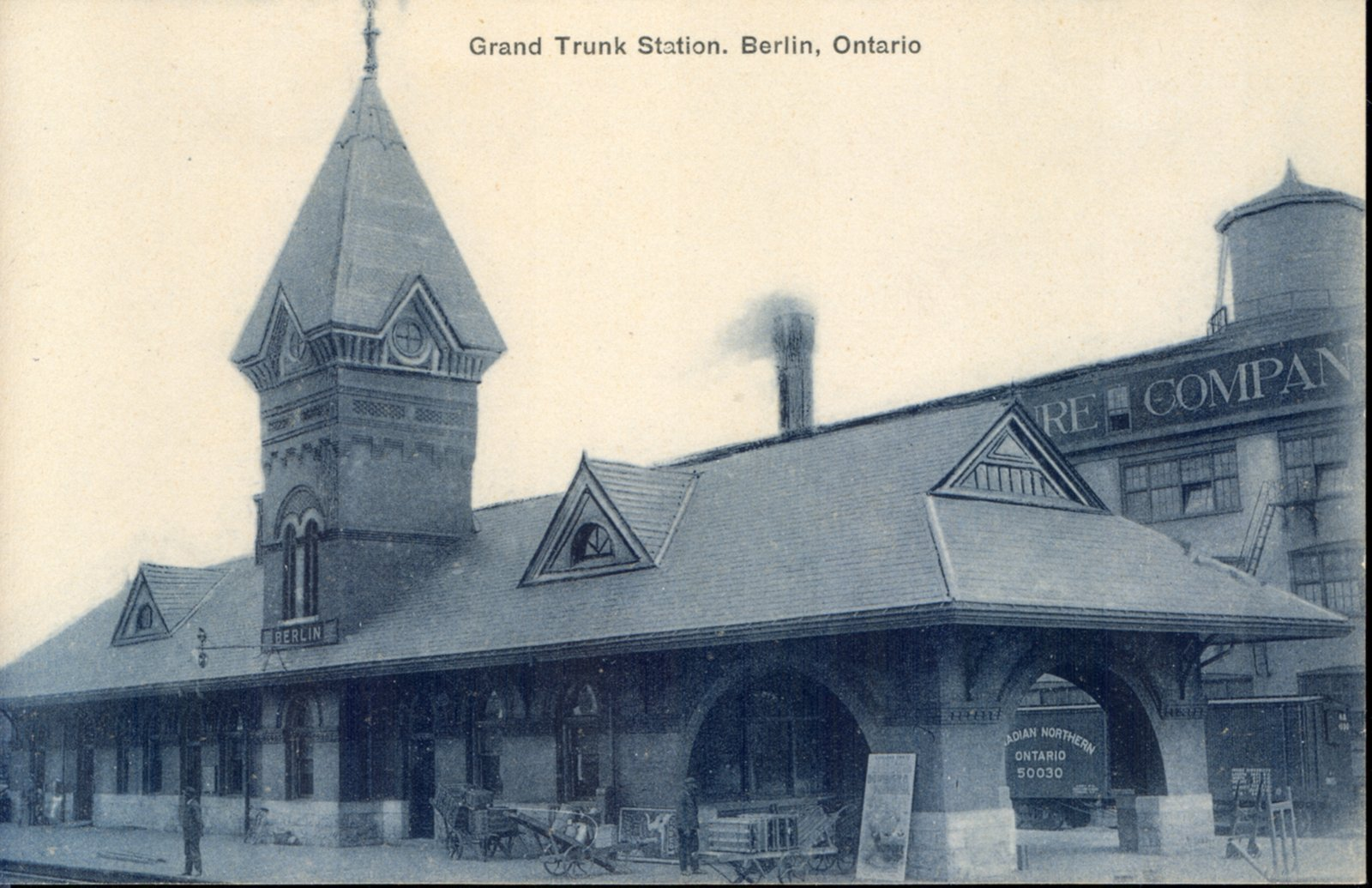 Postcard with a view of the Berlin (Kitchener) train station at 126 Weber Street west